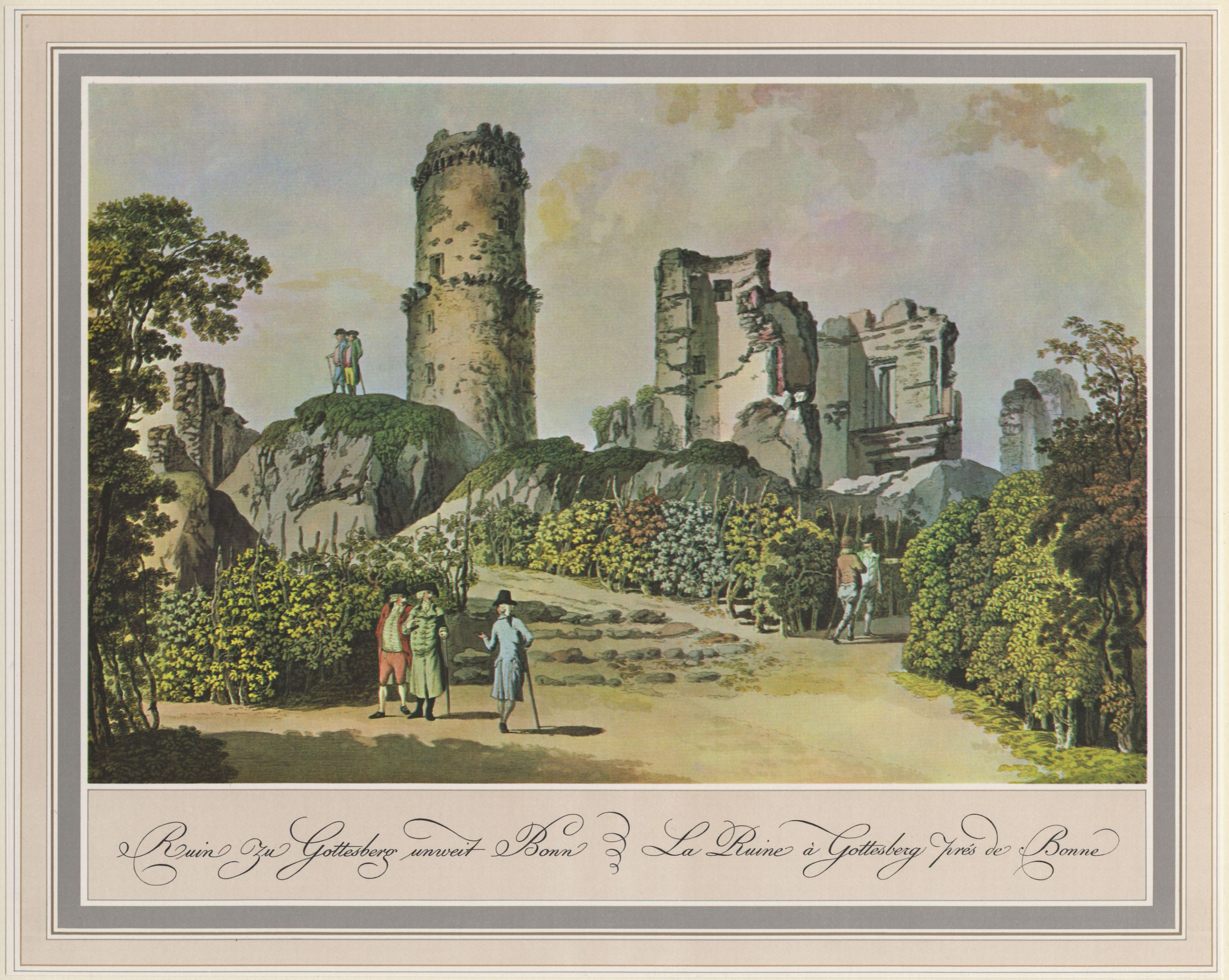 Bad Godesberg, Godesburg; Copperplate engraving (34 × 45 cm), with watercolor, from 50 artistic views of the Rhine as it flows from Speyer to Düsseldorf, appearing in the Artaria in Vienna, 1798, developed (derivative) of the water color work by Laurenz Janscha, created in the summer 1792